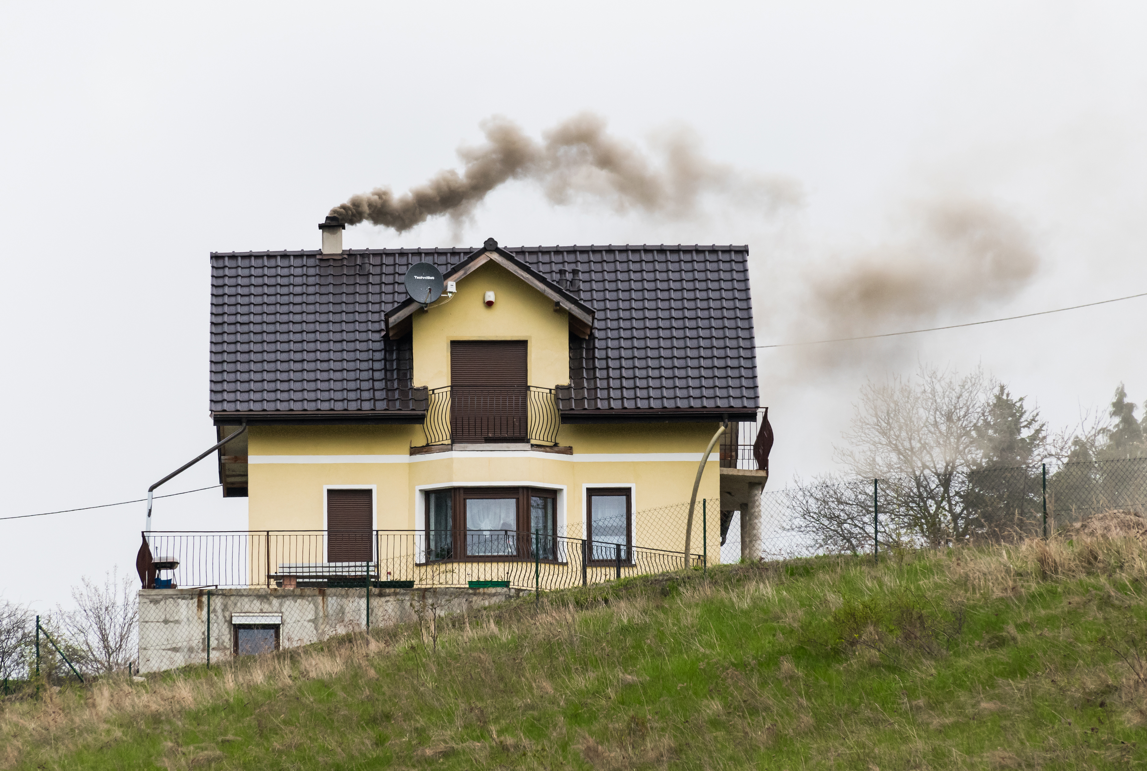 House in Wojbórz